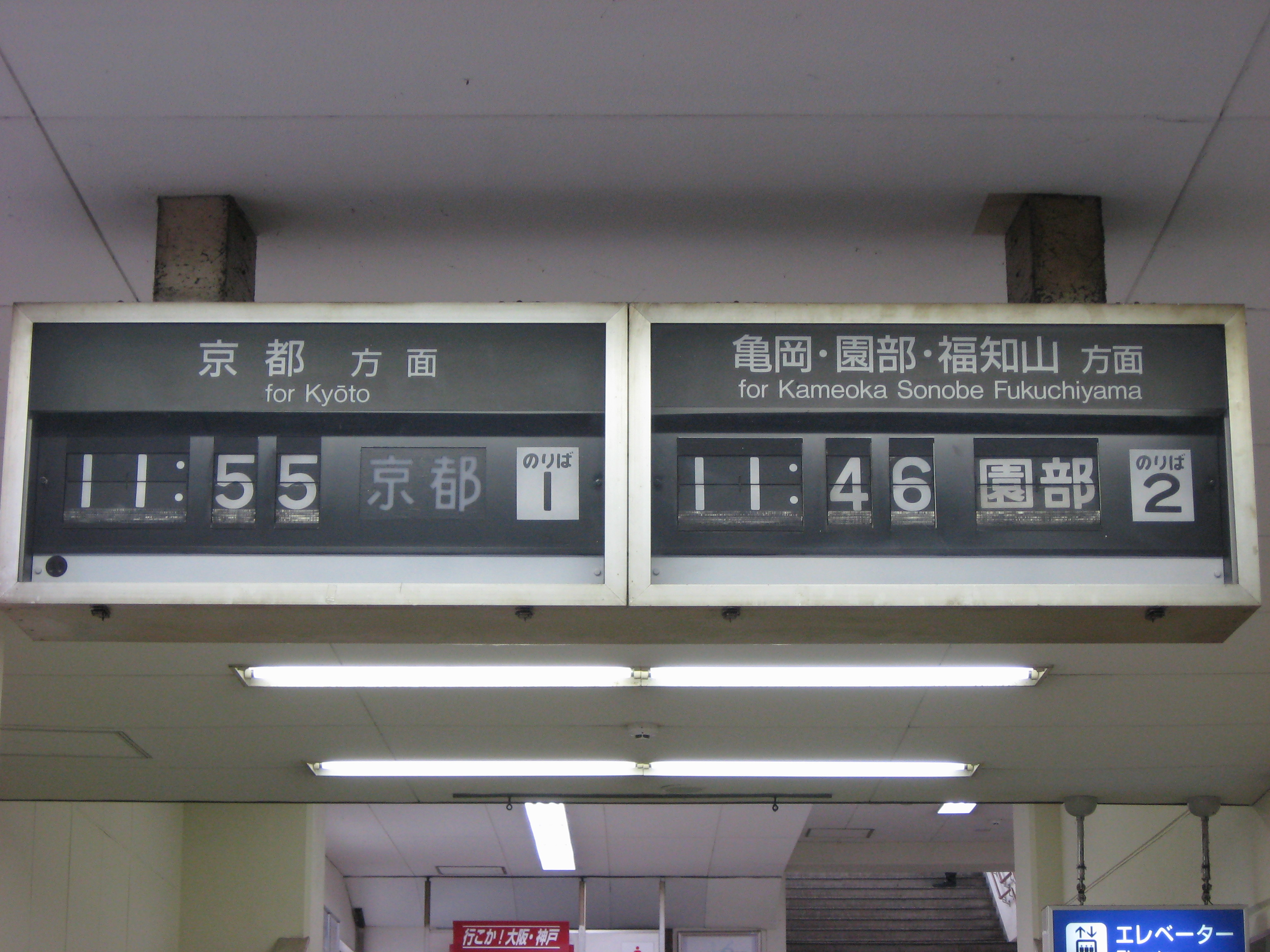 Flap type train departures board of JR Tambaguchi station.